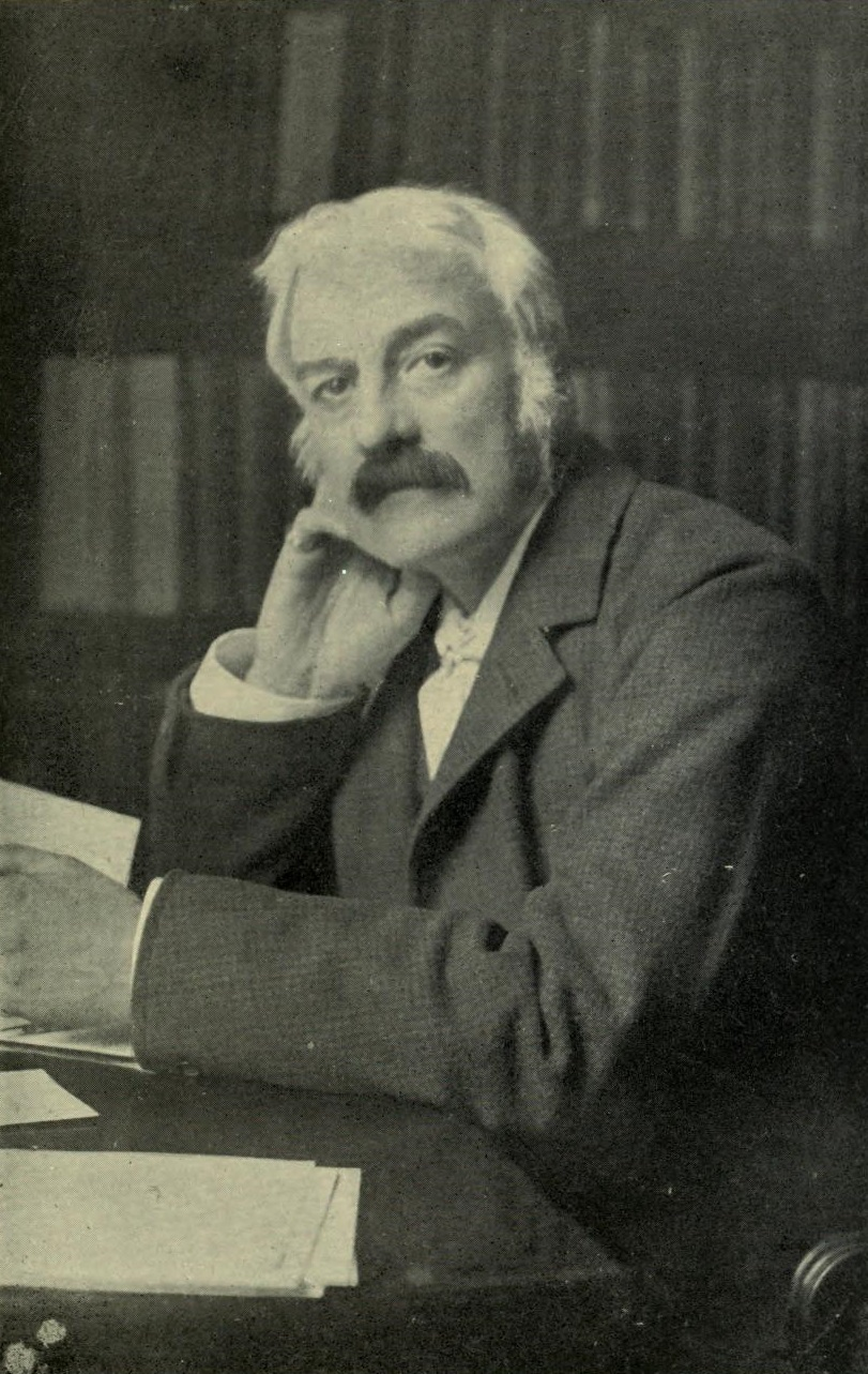 Portrait of Andrew Lang